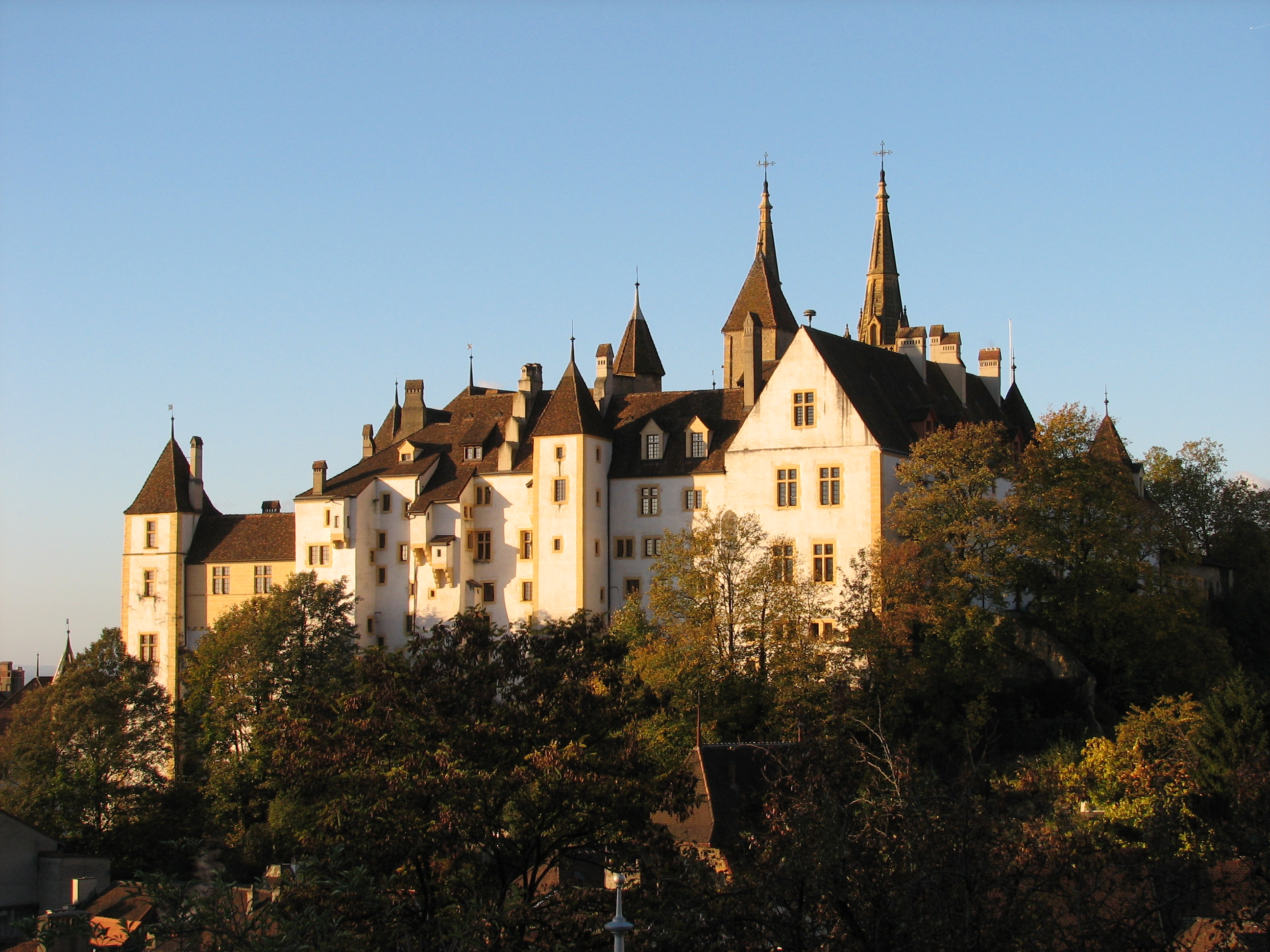 Castle of Neuchâtel in autumn